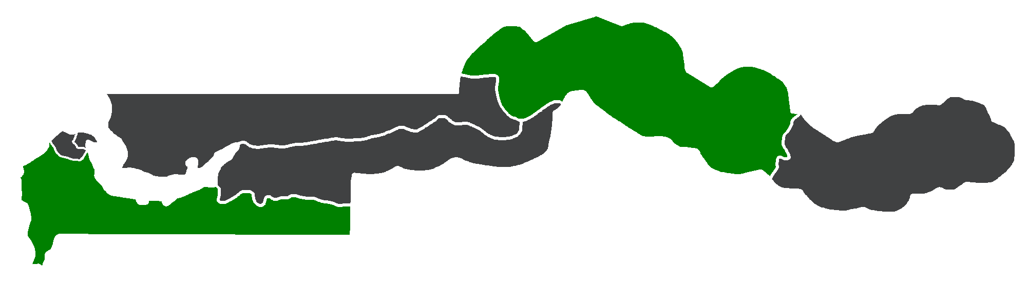 Result by Division of Gambian Presidential Election, 2016.